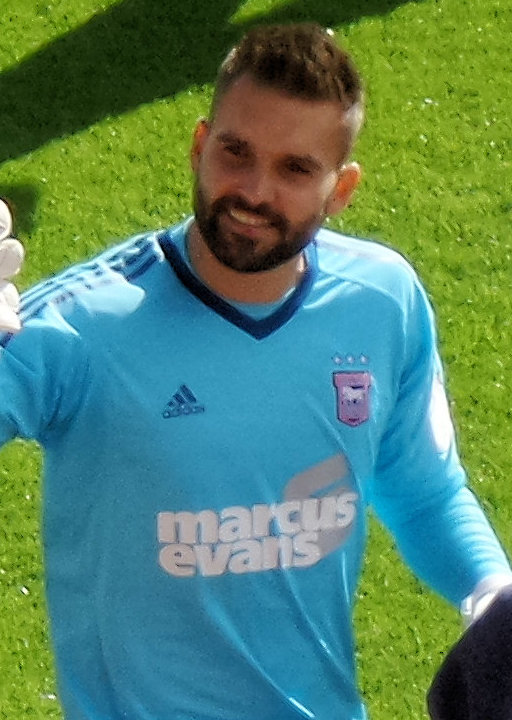 Bartosz Bialkowski playing for Ipswich Town at Barnsley on 12 August 2017